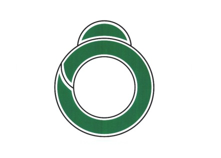 Flag of Uchinada Ishikawa